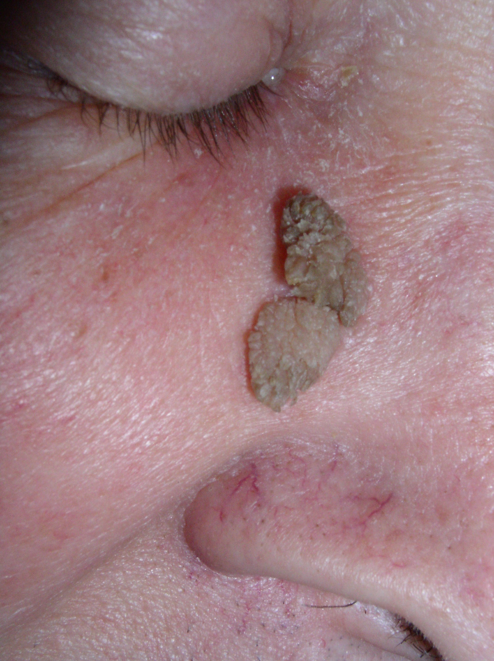 Seborrheic keratosis in 80-year-old man